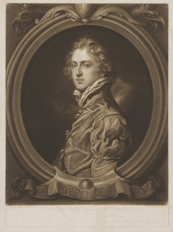 George Spencer Churchill 5th Duke of Marlborough by William Whiston Barney, after Richard Cosway mezzotint, 1803-1808